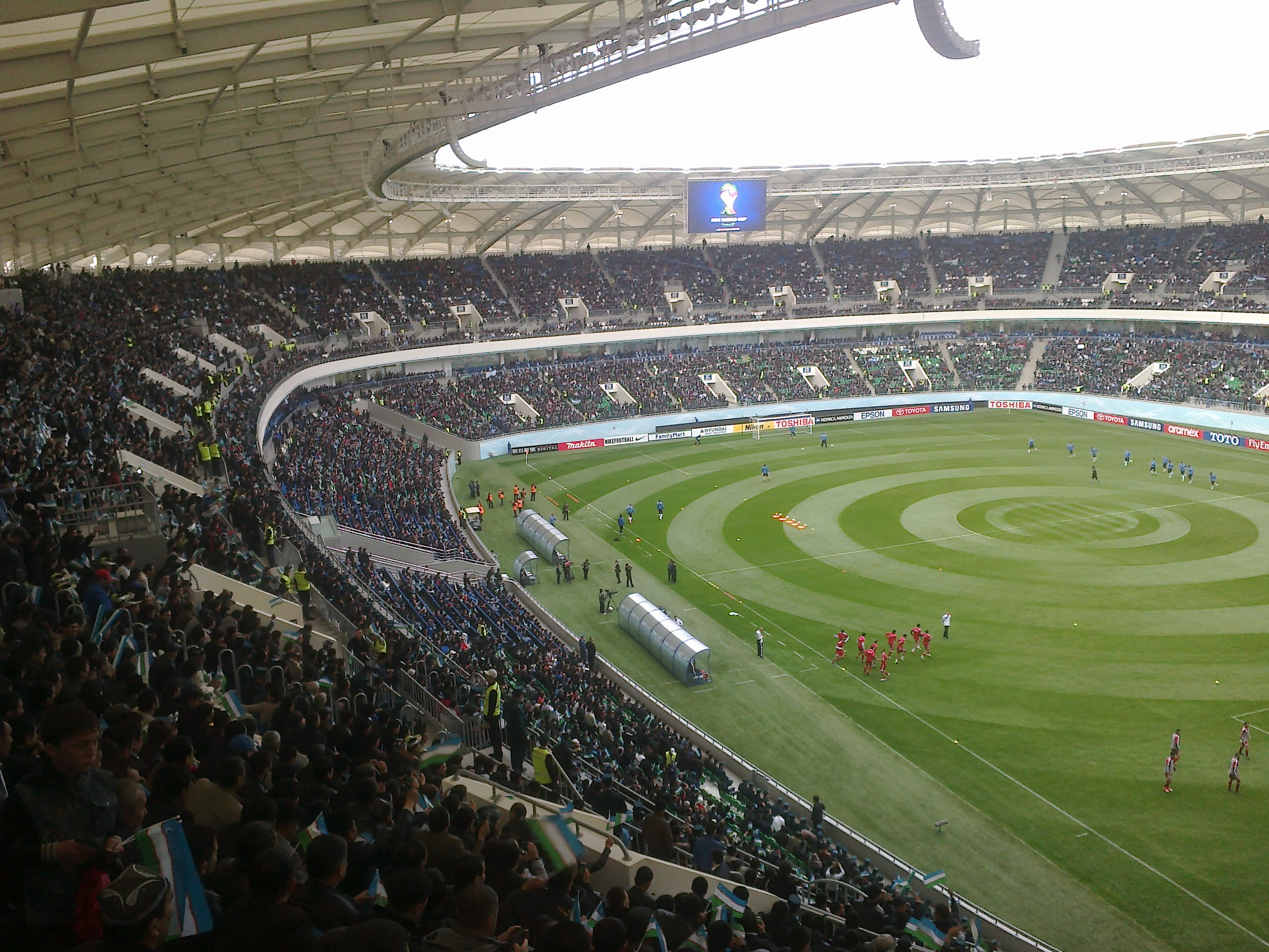 Bunyodkor stadium3